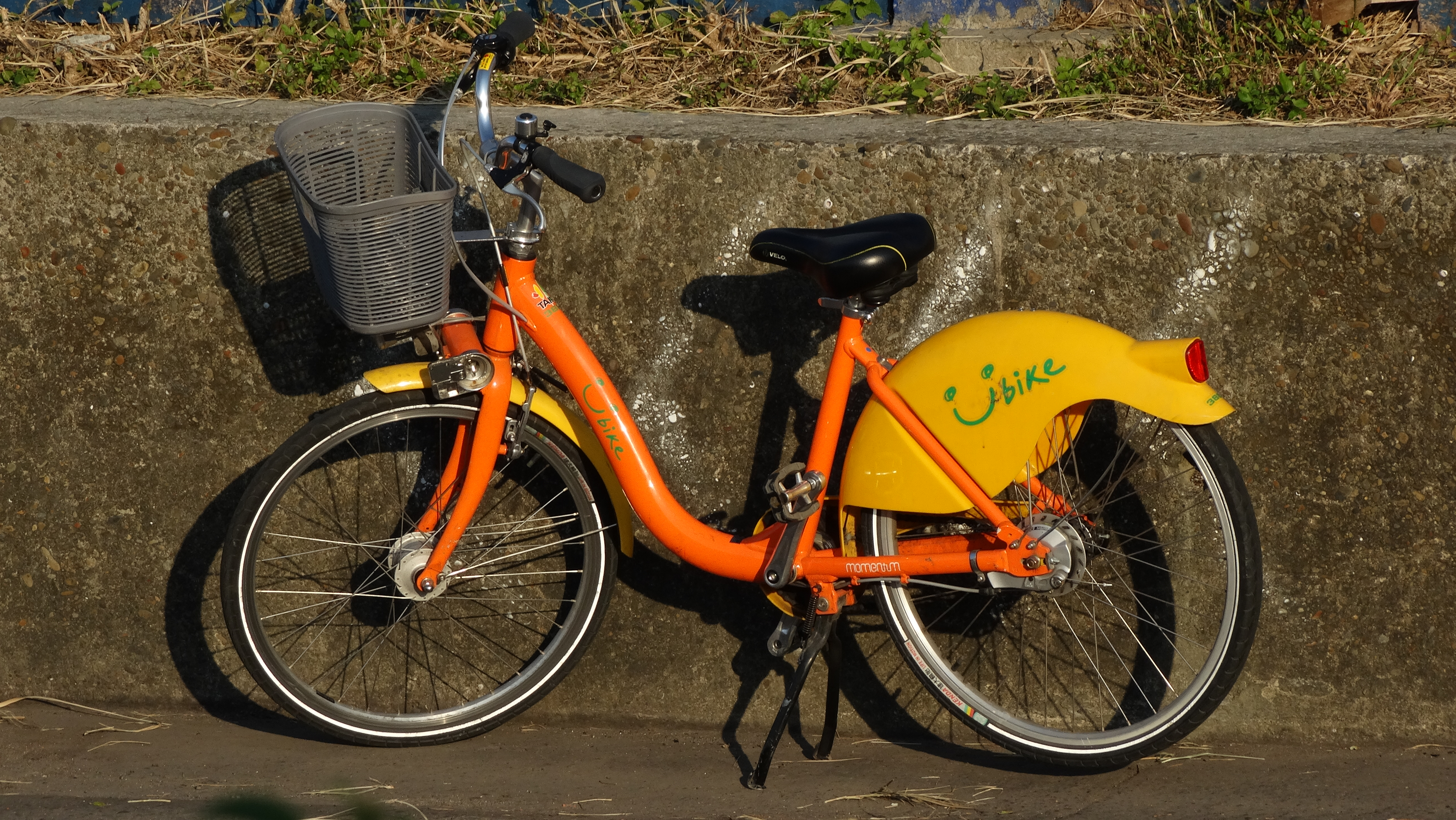 YouBike parked in Lane 180, Binjiang Street, Taipei City.